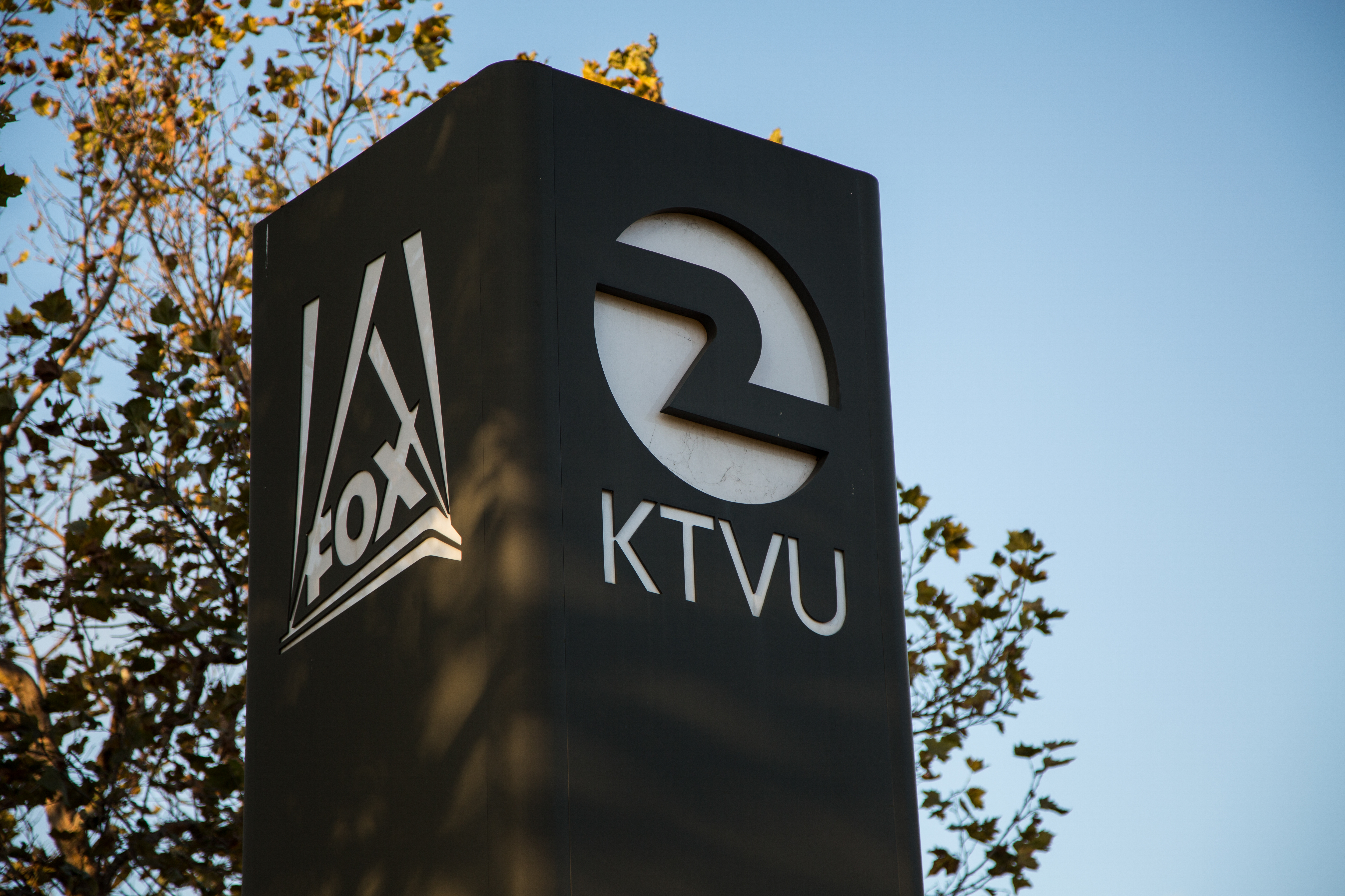 KTVU-TV Fox station in Oakland, California.